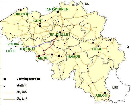 Belgian Railway network (orange), its Ligne Dorsale (red), and the bifurcation from this Dorsal Line to Tournai